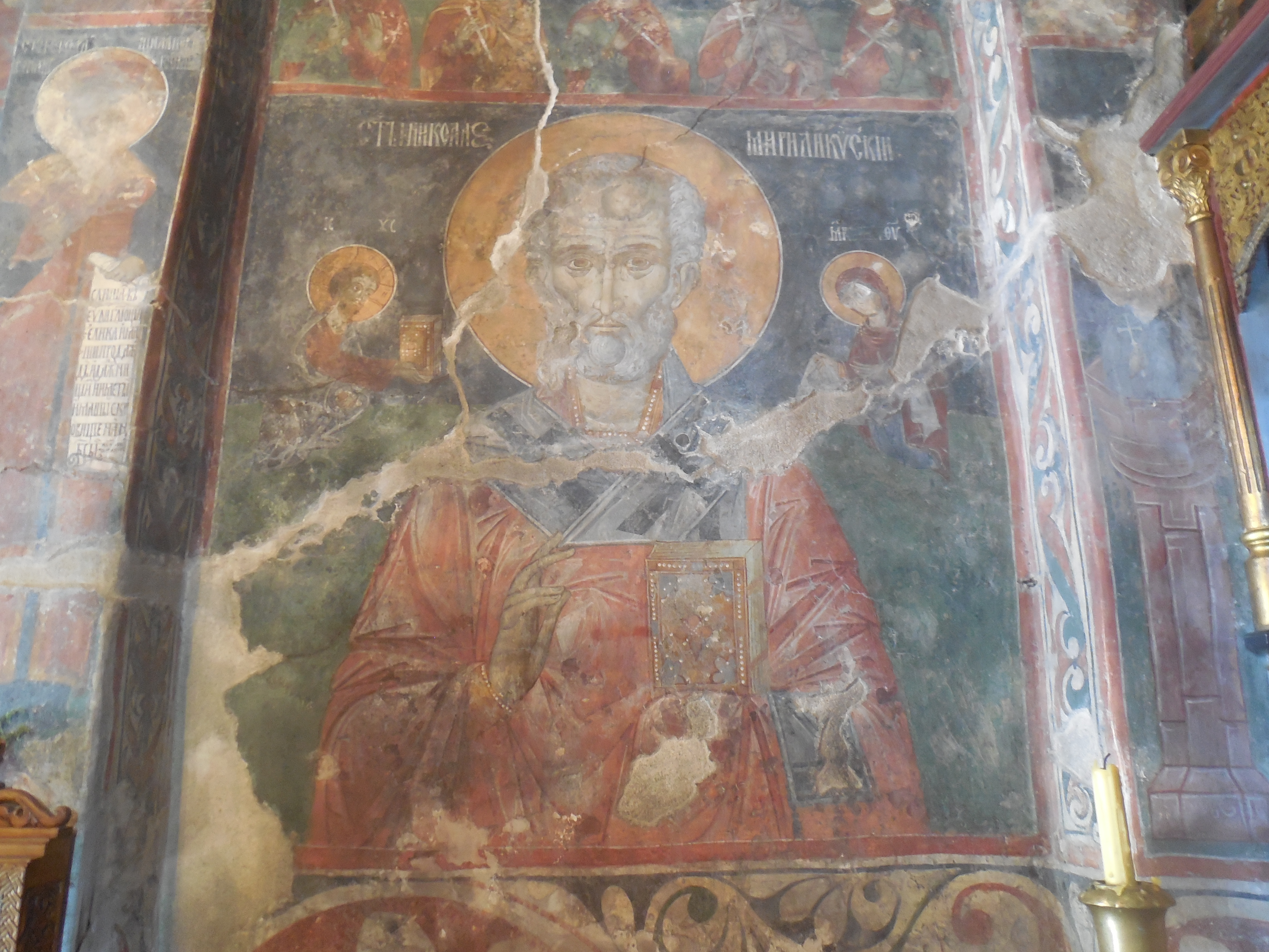 Fresco of Saint Nicholas. Gradiste monastery. Montenegro